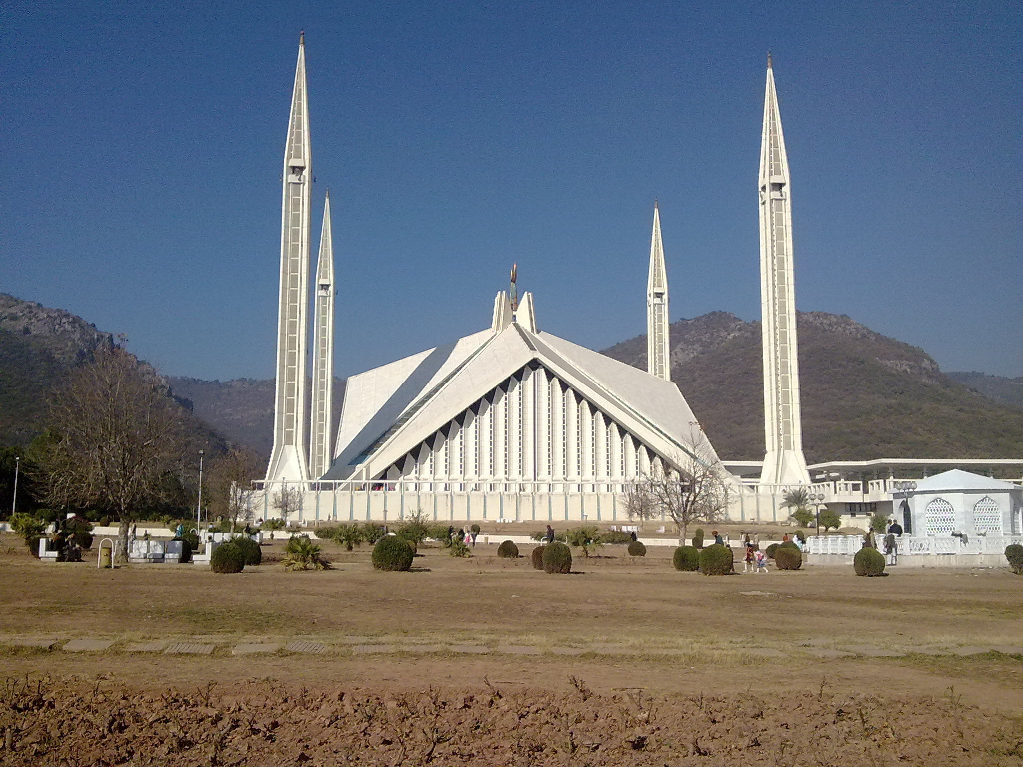 Faisal_Mosque